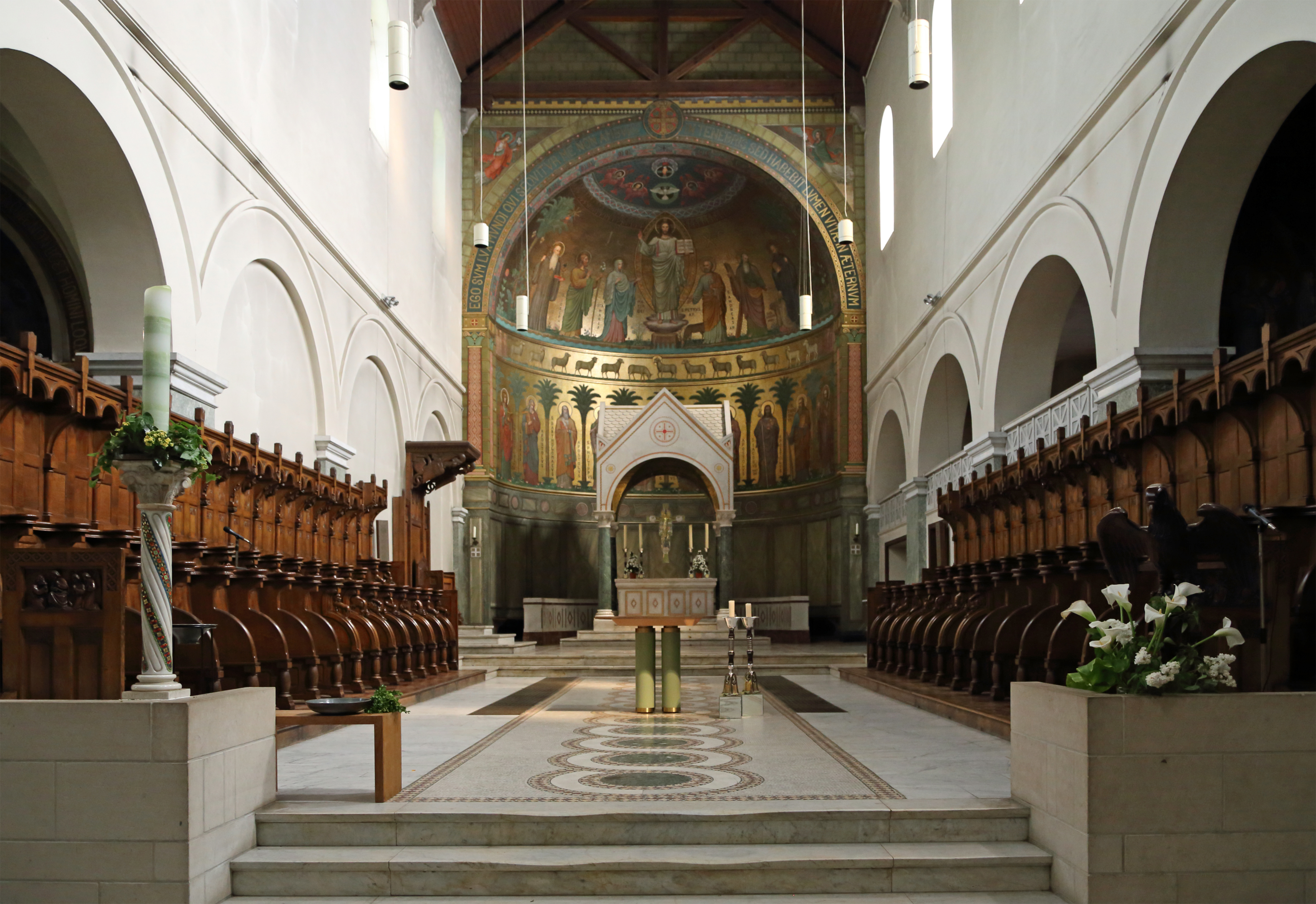 Bruges (Belgium): interior of the church of Sint-Andries abbey, also called the Zevenkerken abbey